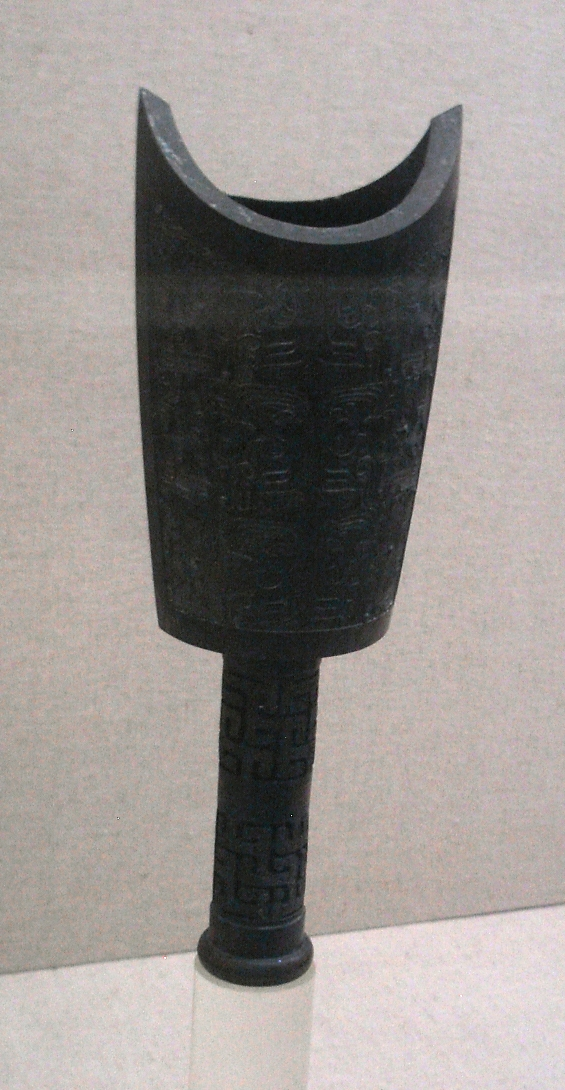 A bronze zheng bell. Warring States period. From Baoshan Tomb 2, Jingmen, Hubei Province